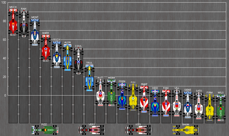 chart of final standings of 2003 Formula One season